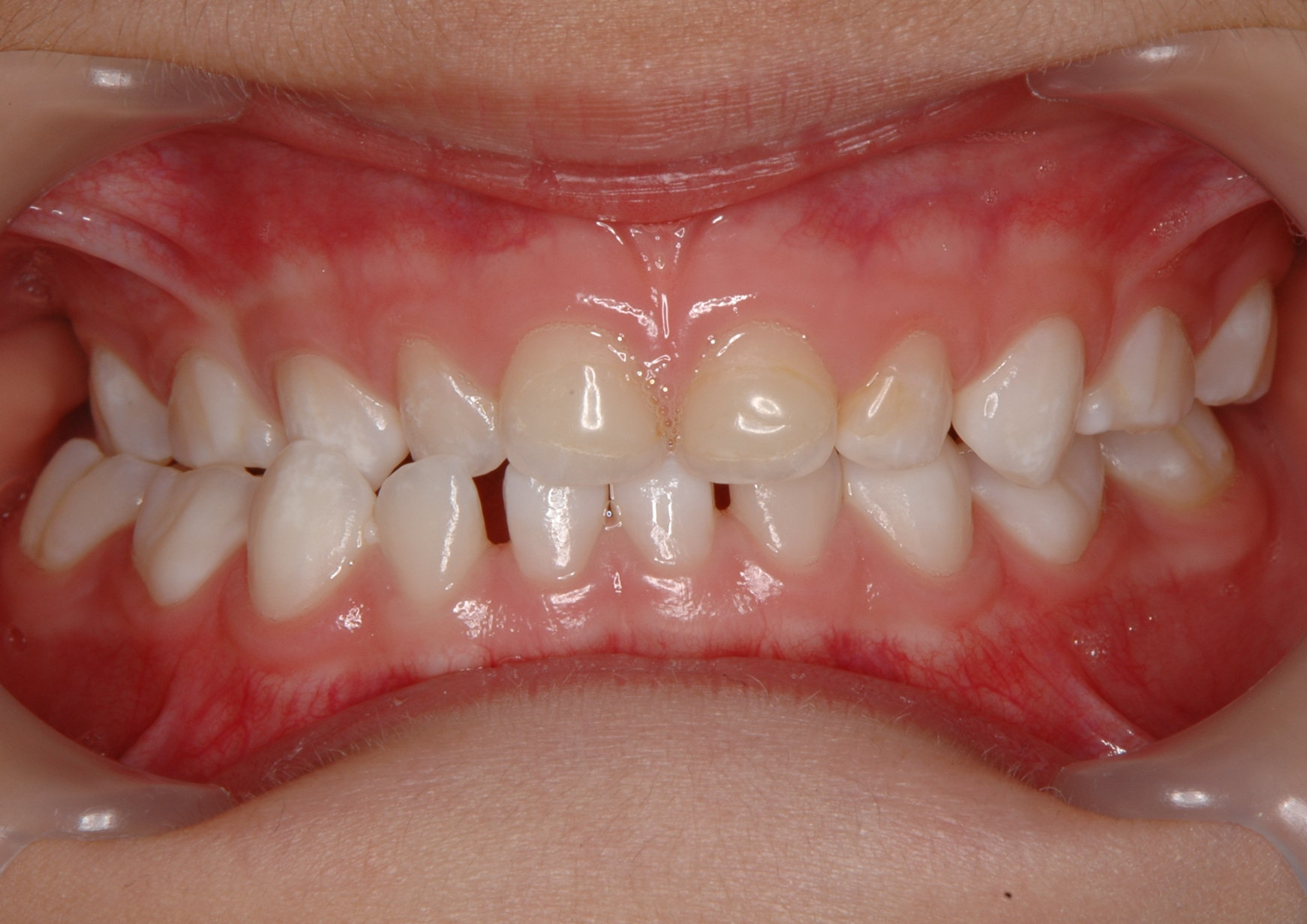 teeth photo